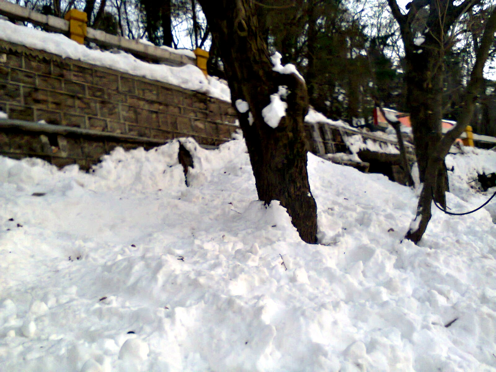 snowfall and landsliding